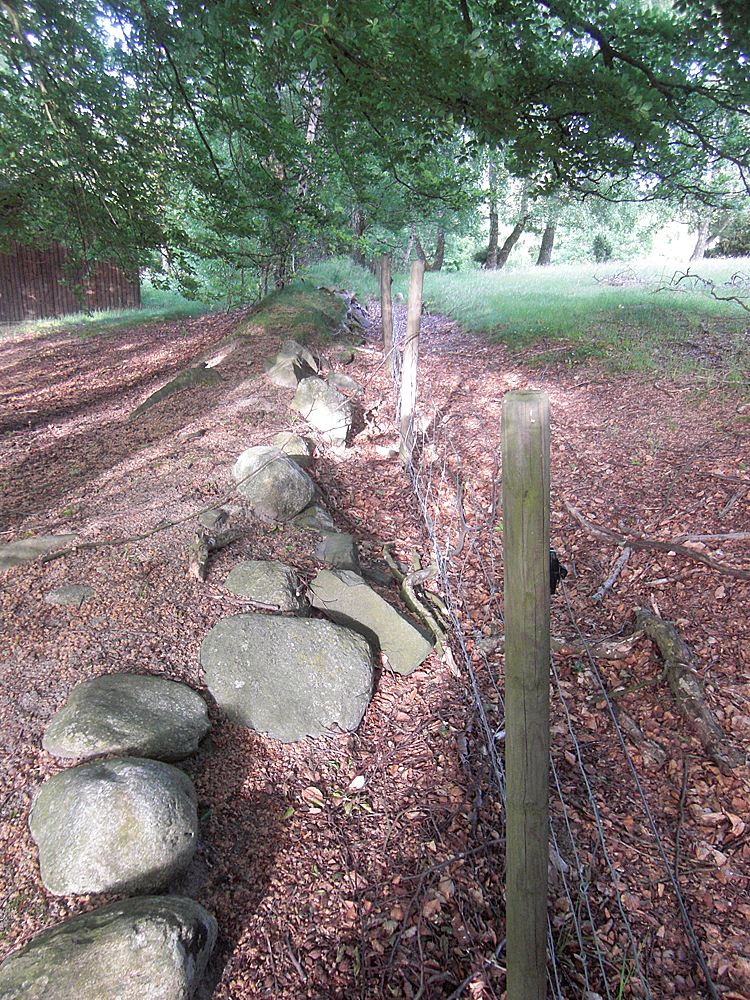 A ditched fence (Sw. "gropavall") from Humlamaden in Veberöd parish in Torna hundred in the municipality of Lund in southern Scania in Sweden. A ditched fence consists of a ditch and an earth wall, sometimes reinforced by stones. The wall can be seen to the left, the reinforcing stones in the middle, and the ditch to the right. The newer "sheep fence" is placed between the wall and the ditch. European Beech (Fagus sylvatica) can be seen in the near upper part of the picture, and the ground is covered with beechnuts. In the background there are birches (Betula pendula).